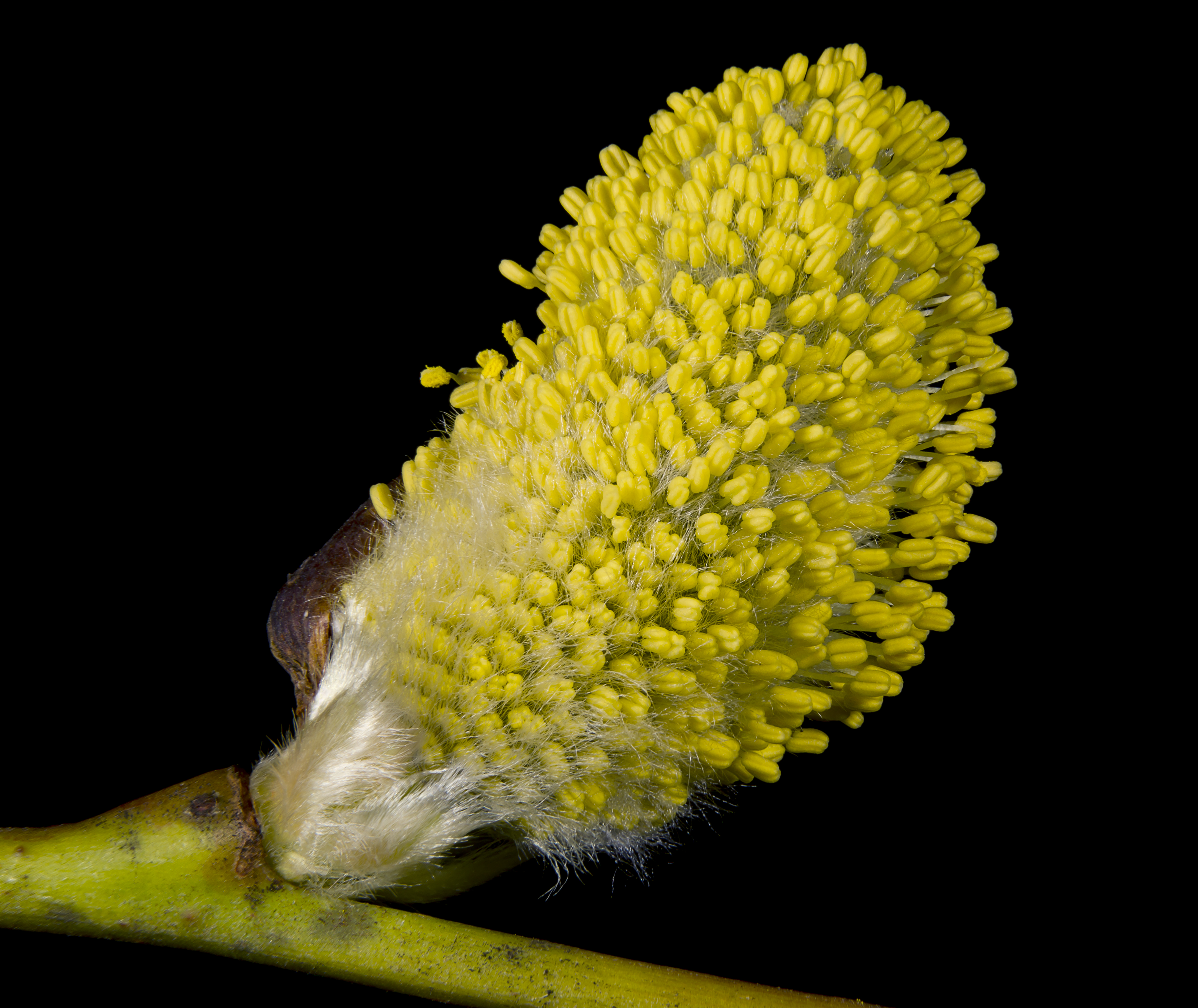 Salix caprea Goat willow - Male catkins Size: 1.5 cm